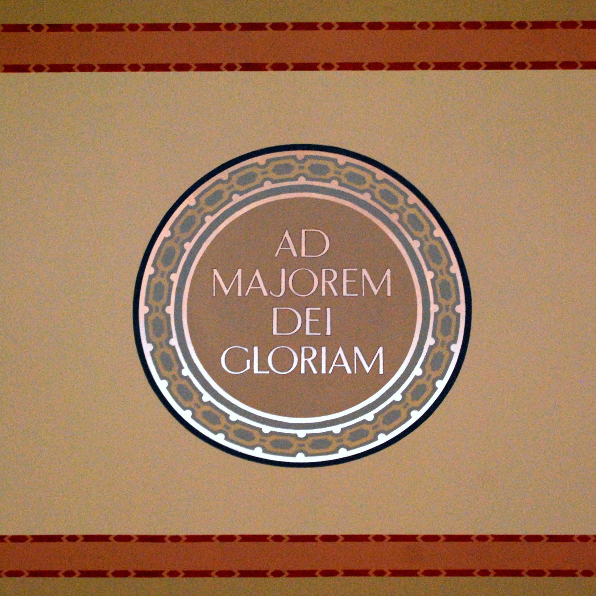 Ad Majorem Dei Gloriam at St. Ignatius in Chicago, Illinois